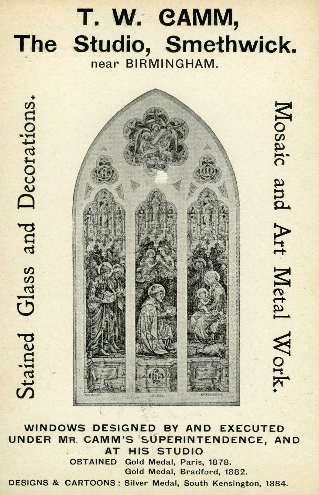 Trade advertisement for T.W. Camm of Smethwick, England. Other side is at File:T.W. Camm.jpg